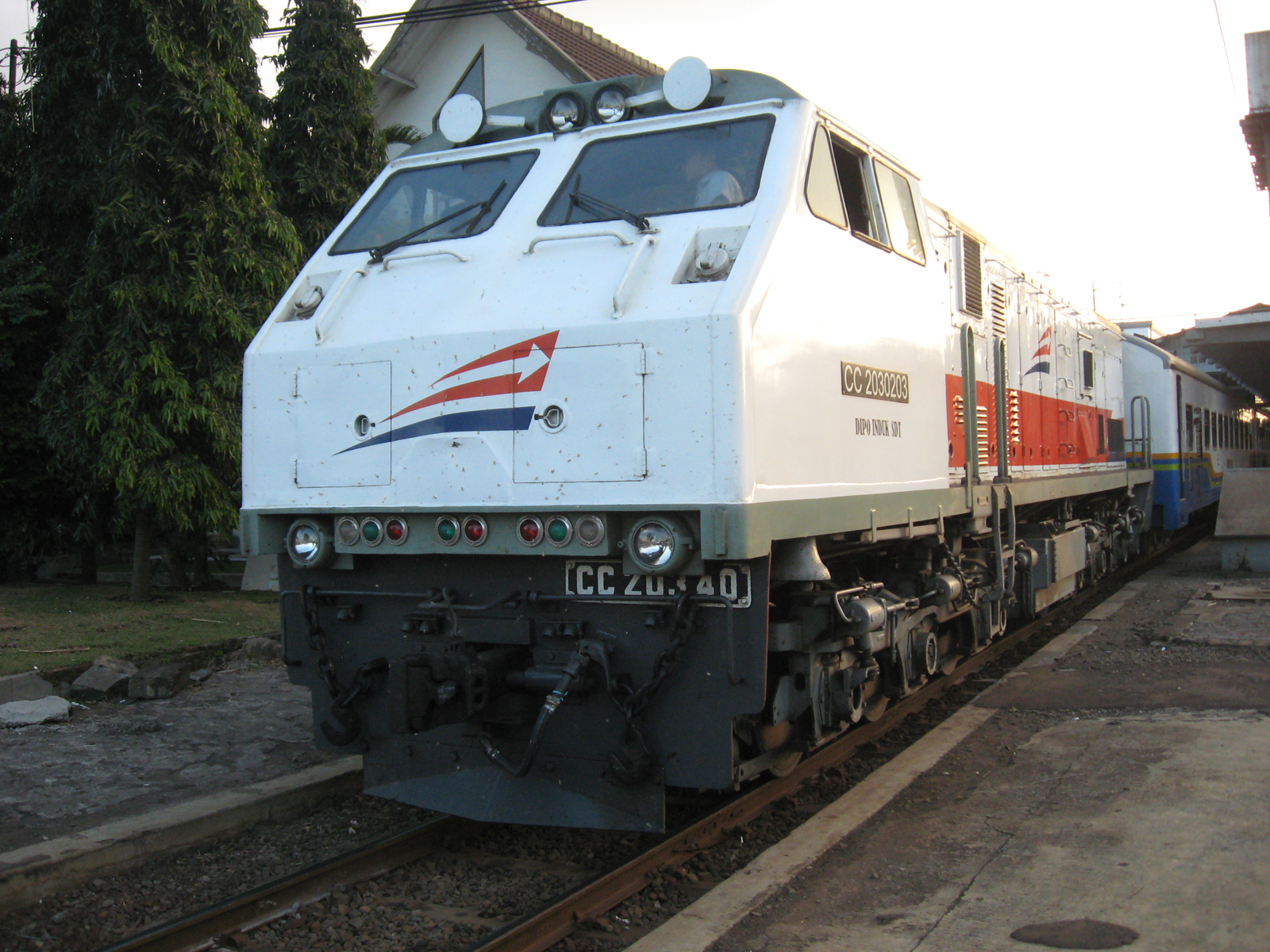 CC 203 40 in PT KAI new livery, with a different cowhanger model than any other CC 203 locomotives.